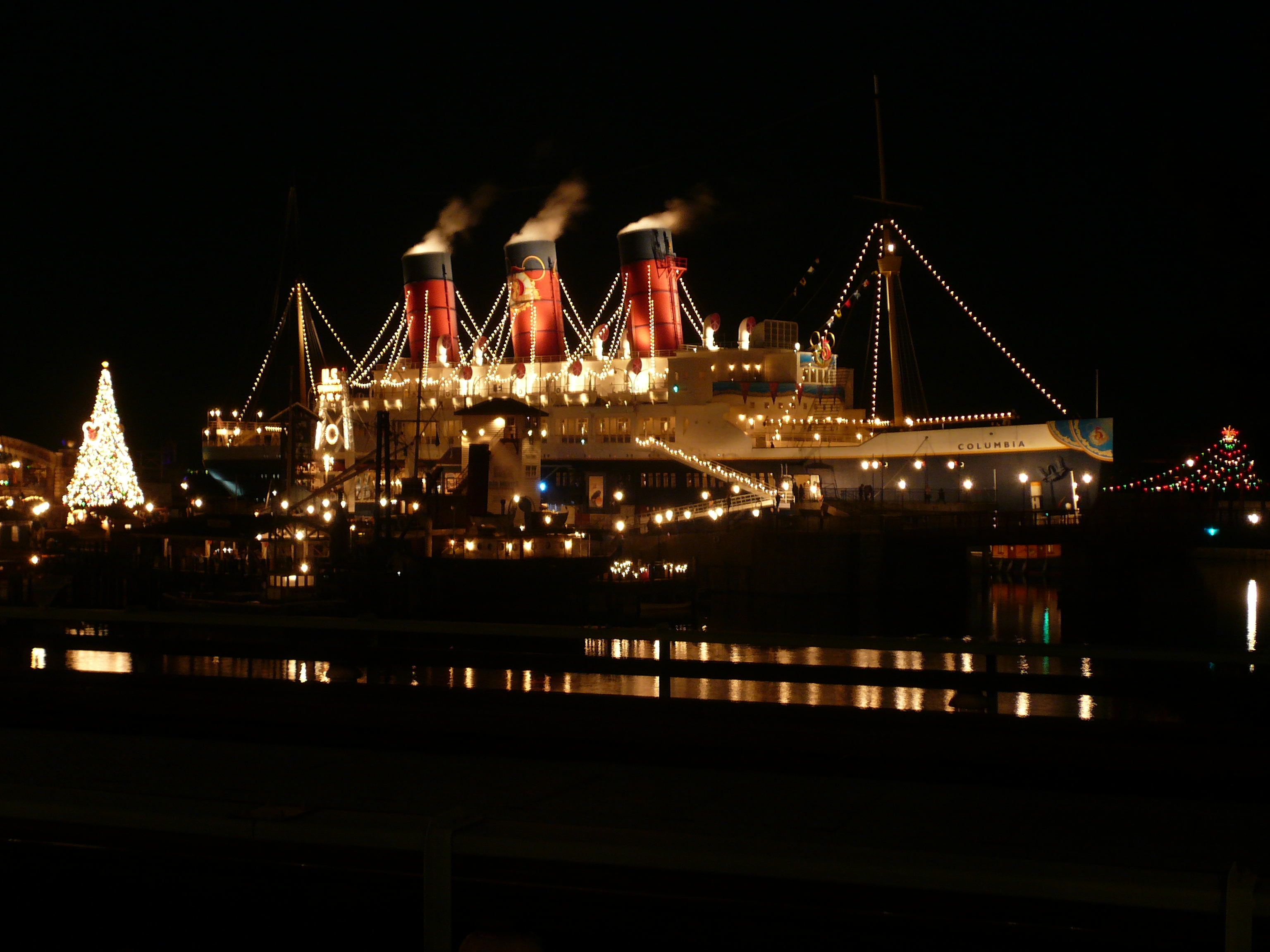 The night Titanic